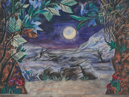 Set design by Natalia Goncharova for act II scene I of the 1914 Ballets Russes ballet "Le Coq d'Or".